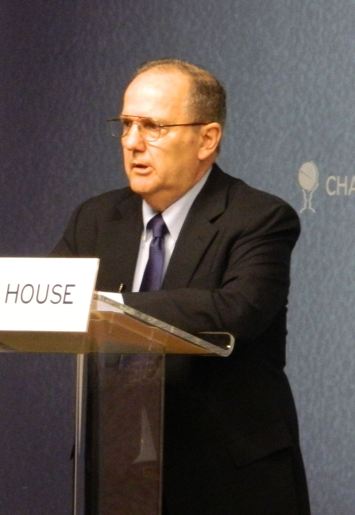 Juan Méndez, UN Special Rapporteur on Torture speaking at Chatham House on Enforcing the Absolute Prohibition Against Torture, 10 September 2012